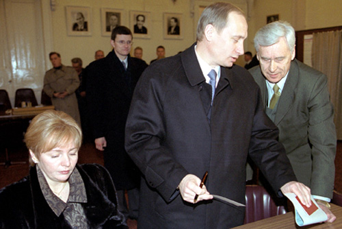 MOSCOW. Vladimir Putin and his wife Lyudmila at polling station 2026, Gagarinsky District.